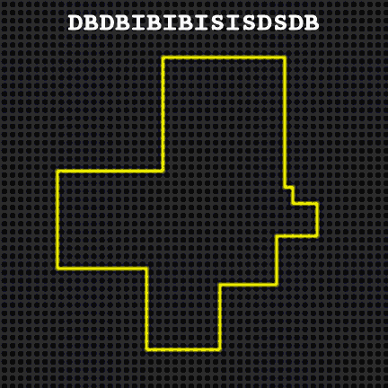 16 segments Golygon, created from anoted sequence in owner image. Leyend: D=Right, B=Down, I=Left, S=Up